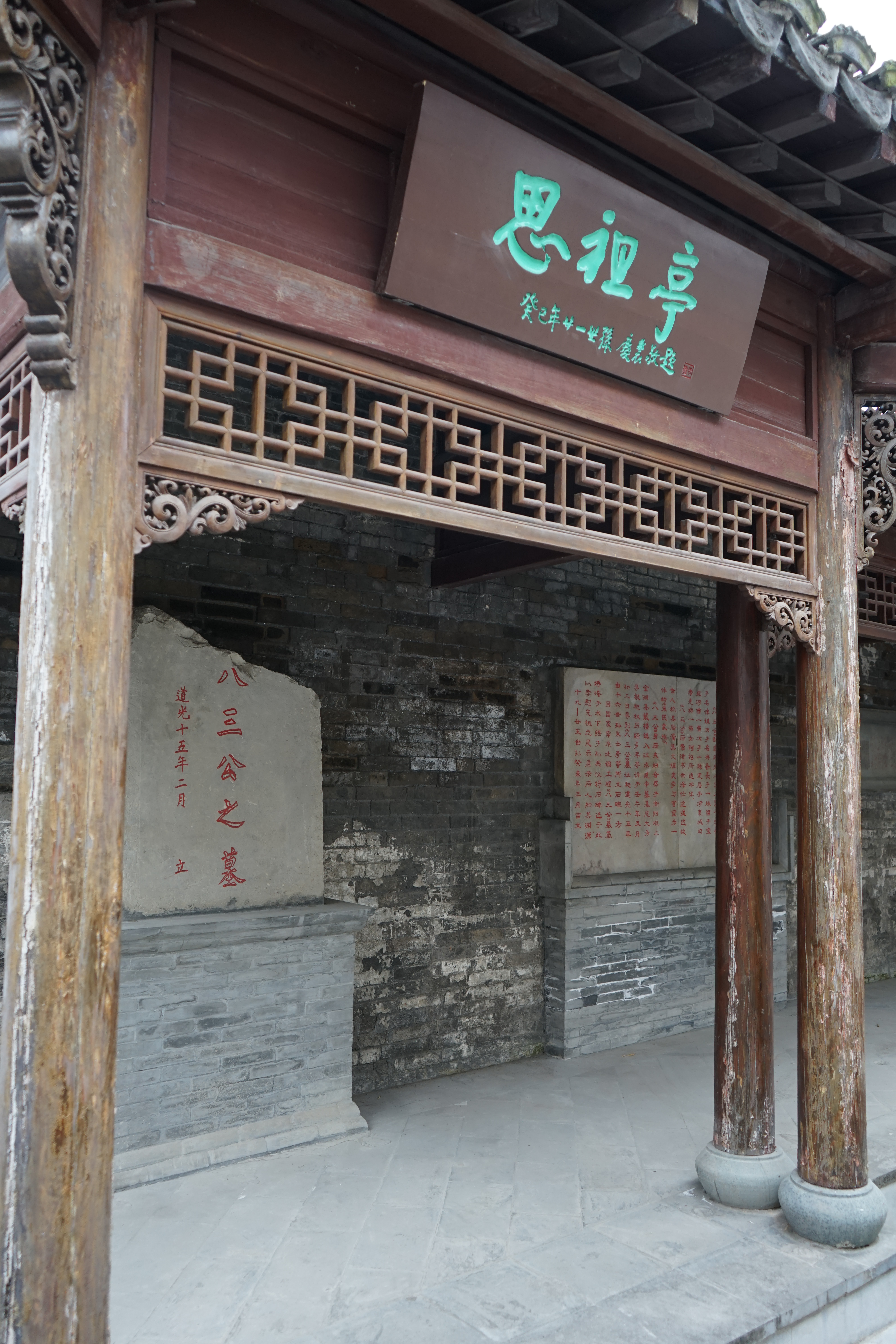 Sizu Pavilion and Ba San Gong's tomb, Zhu's Ancestral Hall, Baoying County